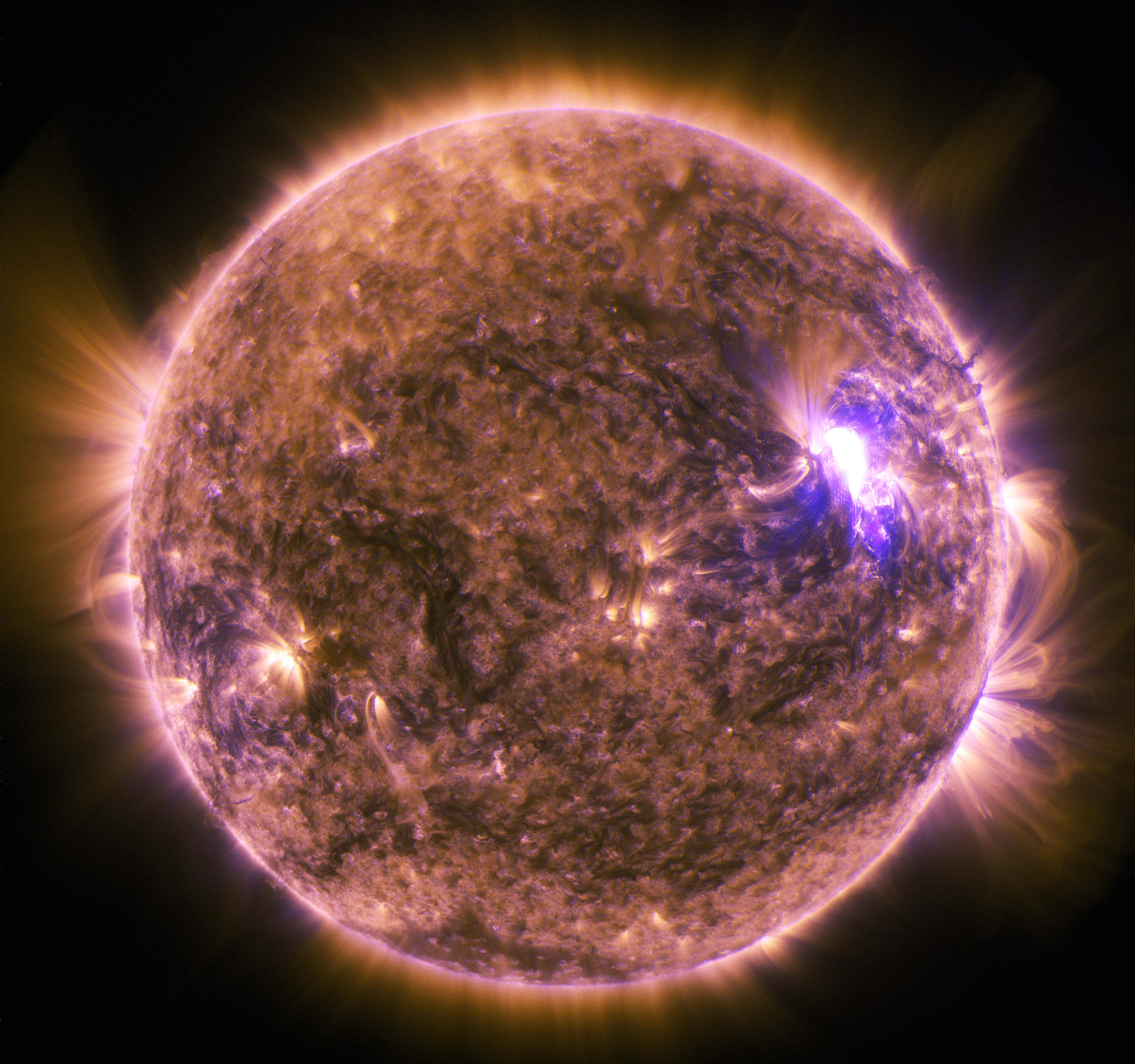 The sun emitted a mid-level solar flare, an M7.9-class, peaking at 4:16 a.m. EDT on June 25, 2015. NASA’s Solar Dynamics Observatory, which watches the sun constantly, captured an image of the event. This is a blended image of light with wavelengths of 131 and 171 Angstroms.